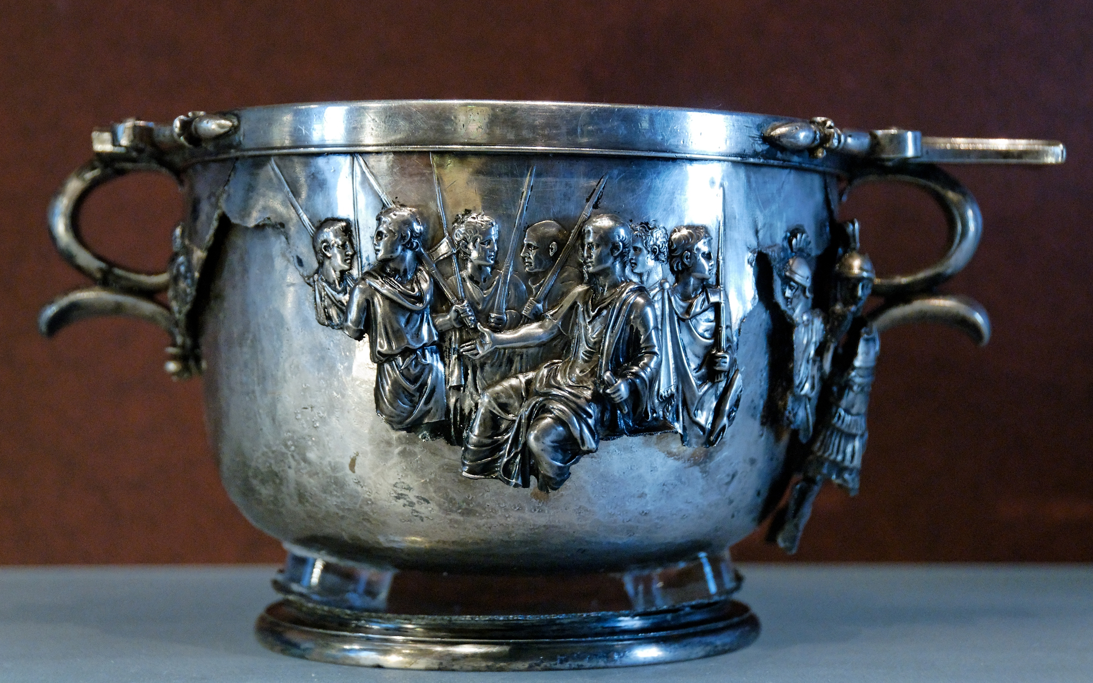 Seated Augustus receiving the obeisance of vainquished Barbarians and personnifications of subdued provinces; skyphos from the Boscoreale Treasure.